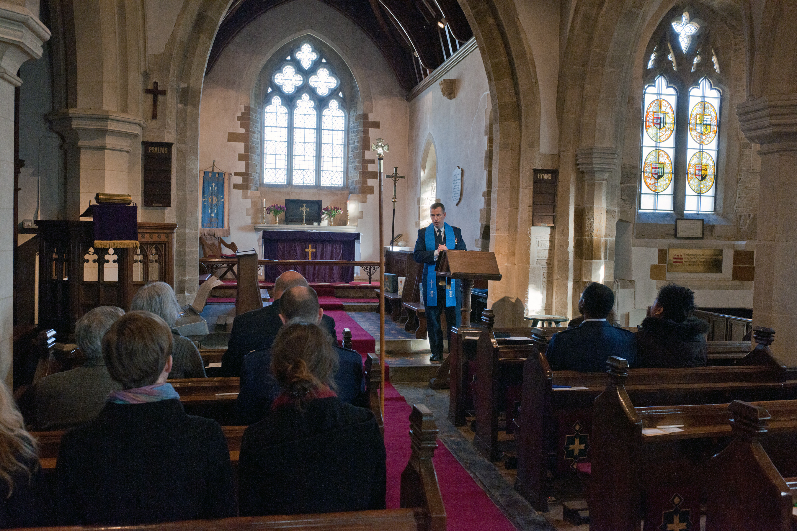 SULGRAVE, United Kingdom - Ch. (Maj.) Peter Fischer, 501st Combat Support Wing chaplain, gives a sermon at the parish church of St. James the Less in Sulgrave Feb. 17. The church dates from the 13th century, and has been designated by English Heritage as a Grade II listed building. To the left of Fischer is the pew where the Washington family worshipped on Sundays; the tomb of Lawrence Washington, George Washington’s five-time great grandfather; and a window bearing four stained-glass versions of the family coat of arms.